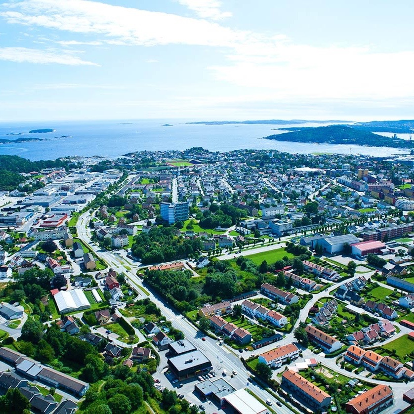 Lund, Kristiansand